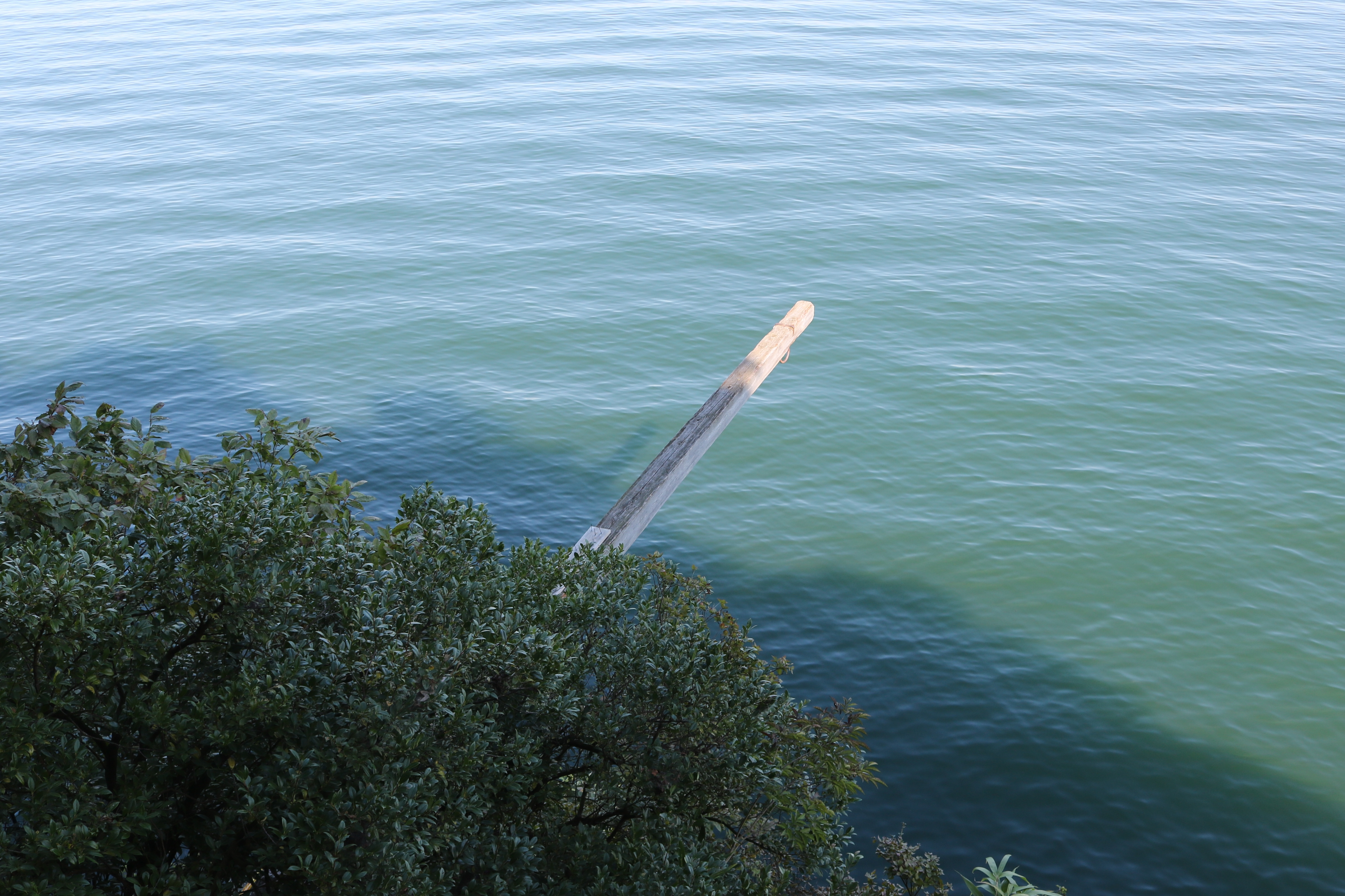 Bar of Isaki-ji, buddhist temple of Tiantai, in Ōmihachiman, Shiga prefecture, Japan.